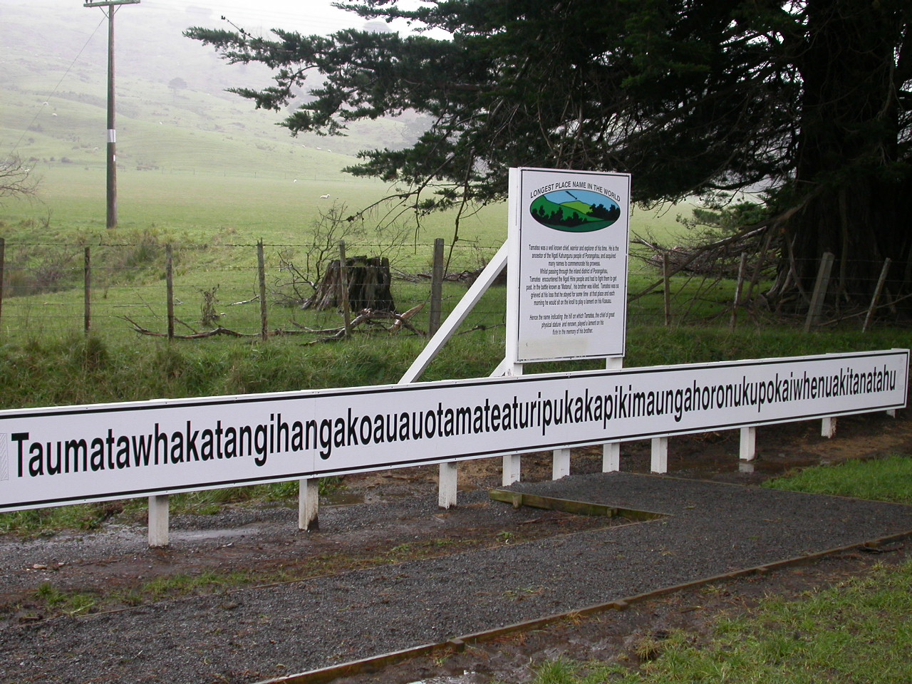 Taumatawhakatangihangakoauauotamateaturipukakapikimaungahoronukupokaiwhenuakitanatahu – Second longest Place Name in the World according to the Guinness Book of records, Longest Place Name in New Zealand, June 2006